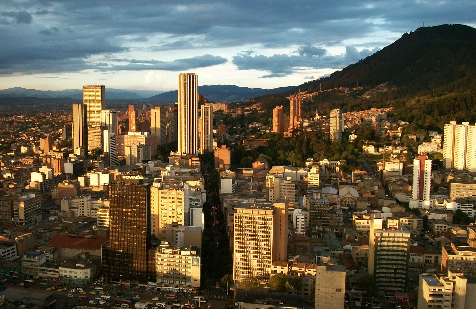 View of Bogota's International Center from Avianca Tower